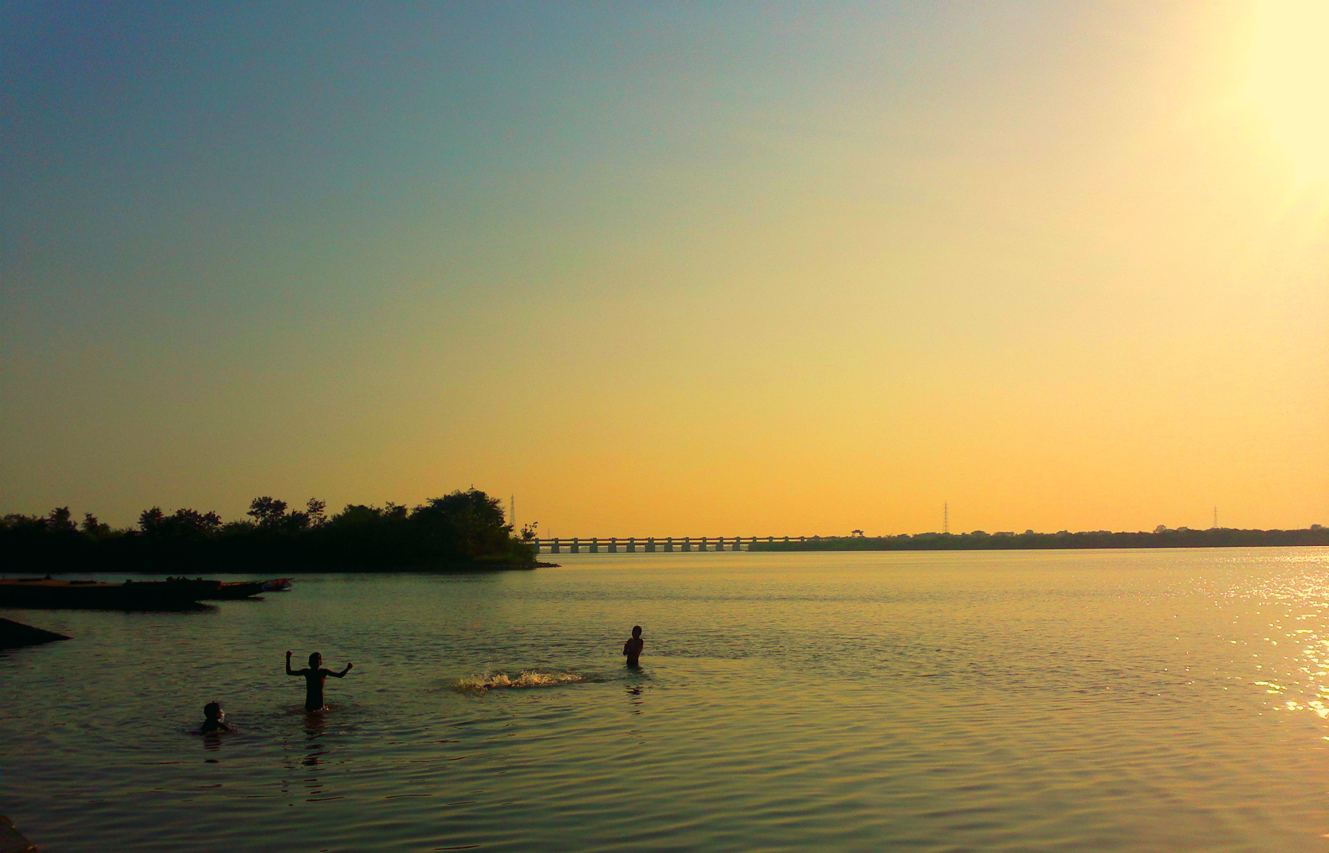 Sunset time at river godavari at Dowlaiswaram